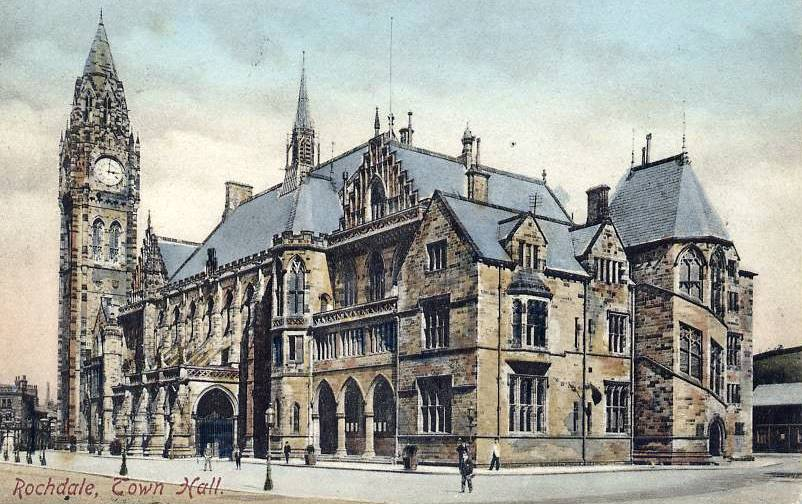 A postcard, dated 1909, depicting Rochdale Town Hall, in Rochdale, Greater Manchester, England.